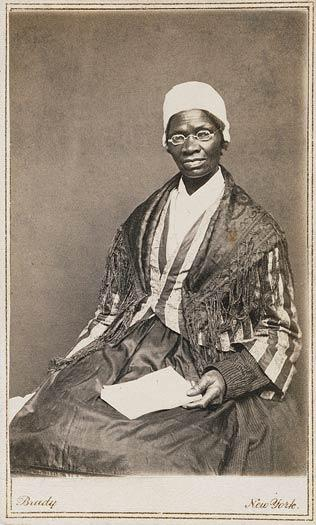 Sojourner Truth Mathew Brady Studio Albumen silver print c. 1864 National Portrait Gallery Accession no. NPG.2002.90